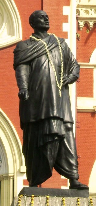 This picture was taken infront of kolkata high court. This is the only fullsize sculpture of masterda surya sen.